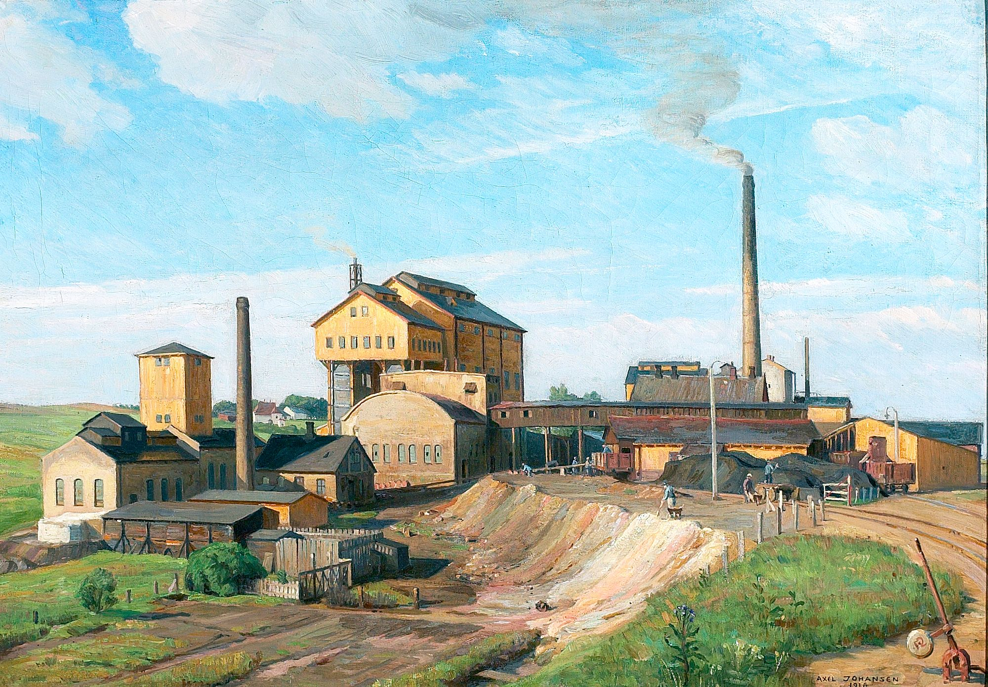 Gødningsfabrikken (The Fertilizer Factory) in Mundelstrup was founded in 1871. After a period of stagnation the plant was sold to A/S Dansk Svovlsyre- & Superphosphat-Fabrik (now Superfos) in 1902. The new owners bought up large tracts of land and erected new buildings and a siding to the main Aarhus-Randers railway (to the right). The factory was closed in 1925 and in the 1990s the cleaning up of polluted land cost the Danish State 30 million DKK.